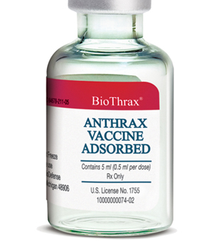 BioThrax is the anthrax vaccine administered to U.S. troops by the government.